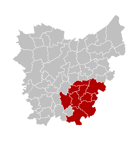 Map of the province East Flanders, showing Aalst arrondissement in red.